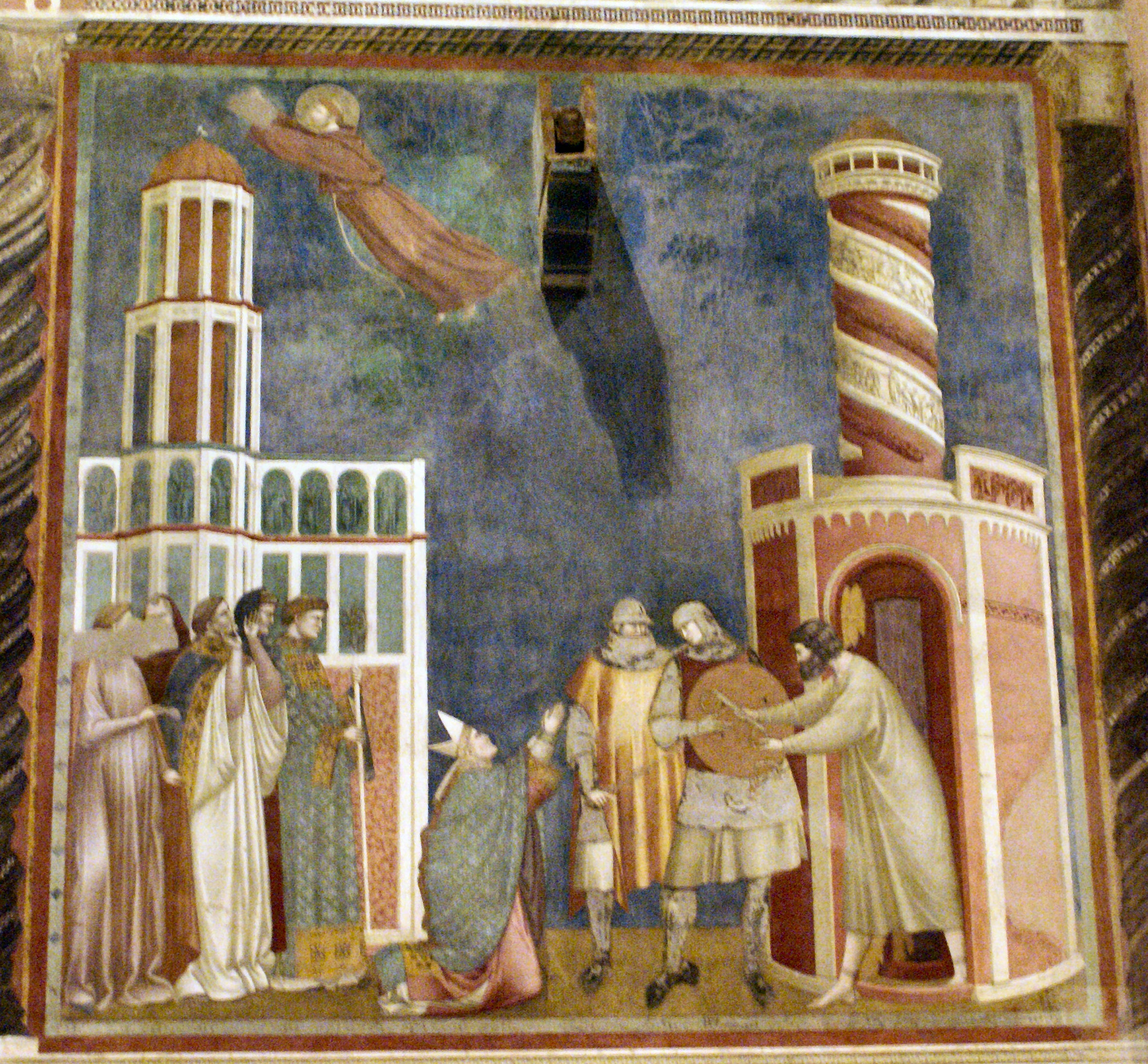 Giotto: Liberation of the heretic Peter,Basilica of Saint Francis,Assisi